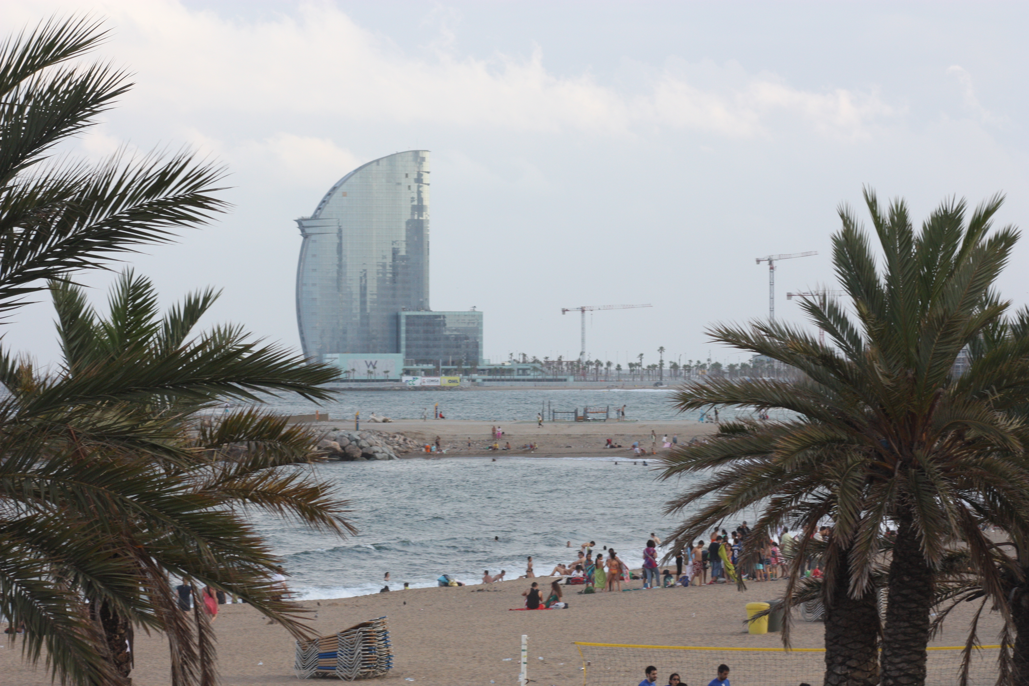 W hotel Barcelona, July 2009